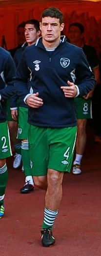 Darren O'Dea with the Republic of Ireland national football team in 2011.